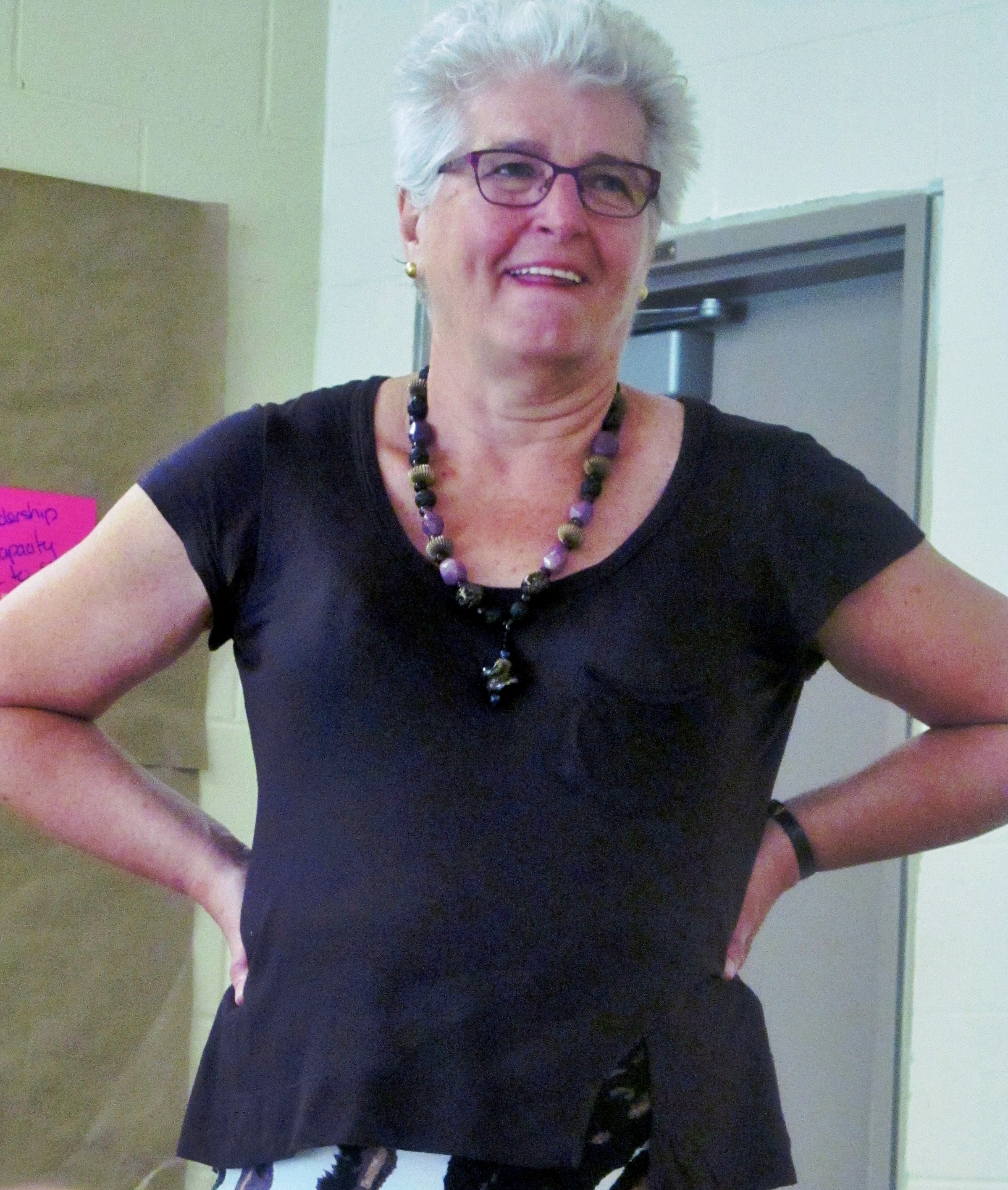 Barbara Hall the former mayor of the Old Toronto, during the Consultations on TDSB meeting in Scarborough, Ontario, Canada in May 2015.